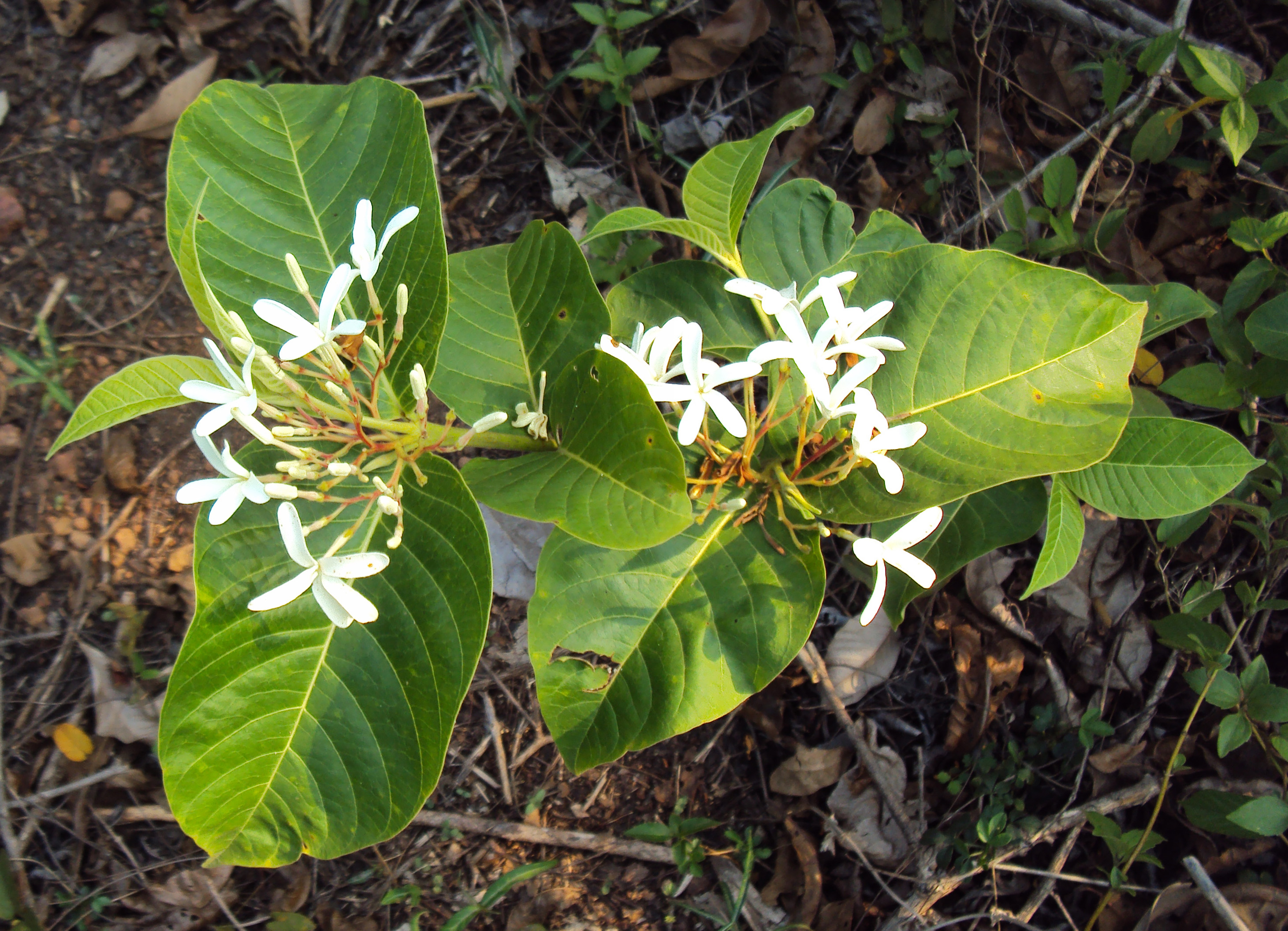 Holarrhena pubescens